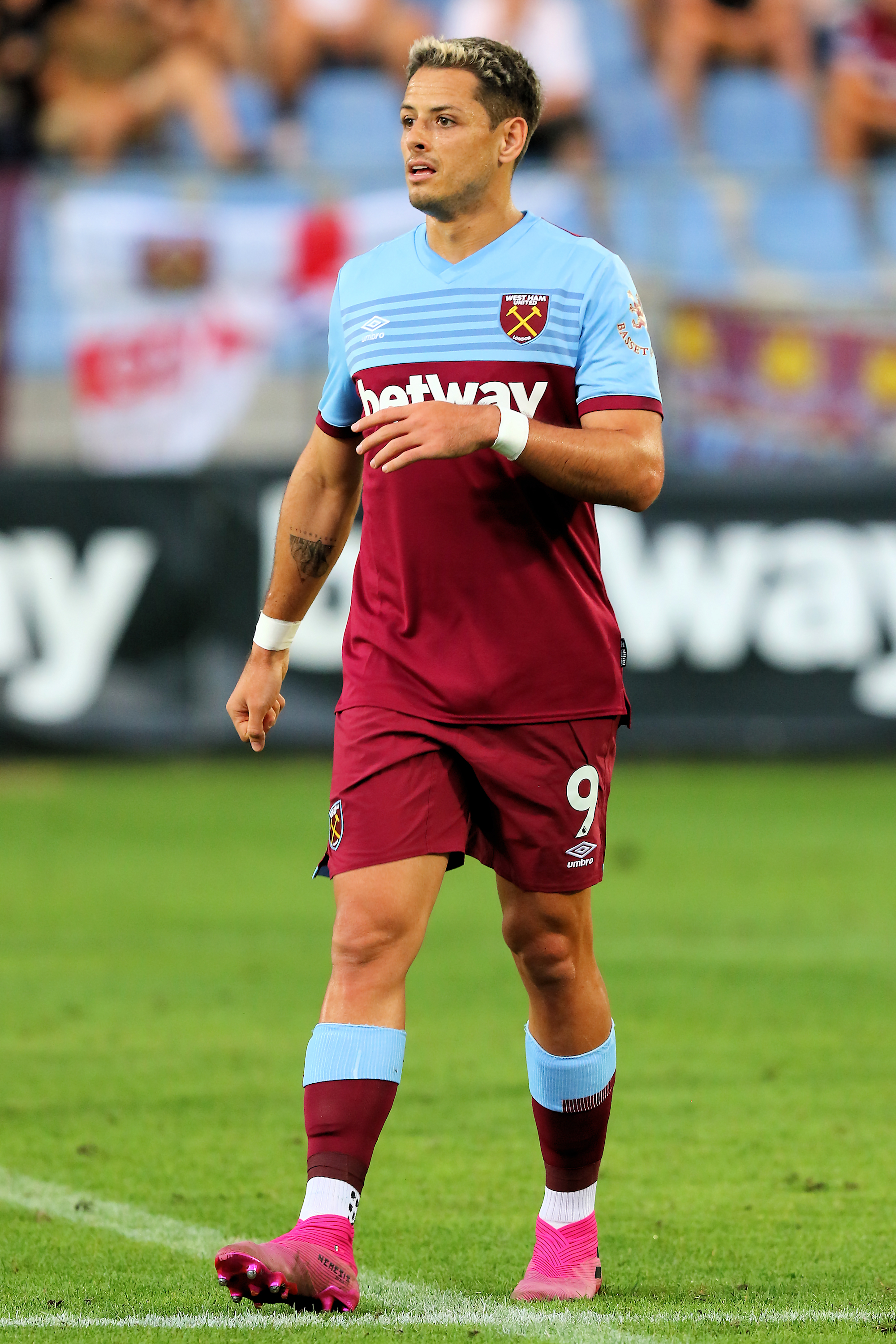 Friendly match Hertha BSC (blue-white shirts) vs. West Ham United (red-blue shirts) at 31-07-2019 3-5 (3-2) in the Sonnenseestadium in Ritzing. – The photo shows Javier Hernández Balcázarz "Chicharito" (West Ham United).